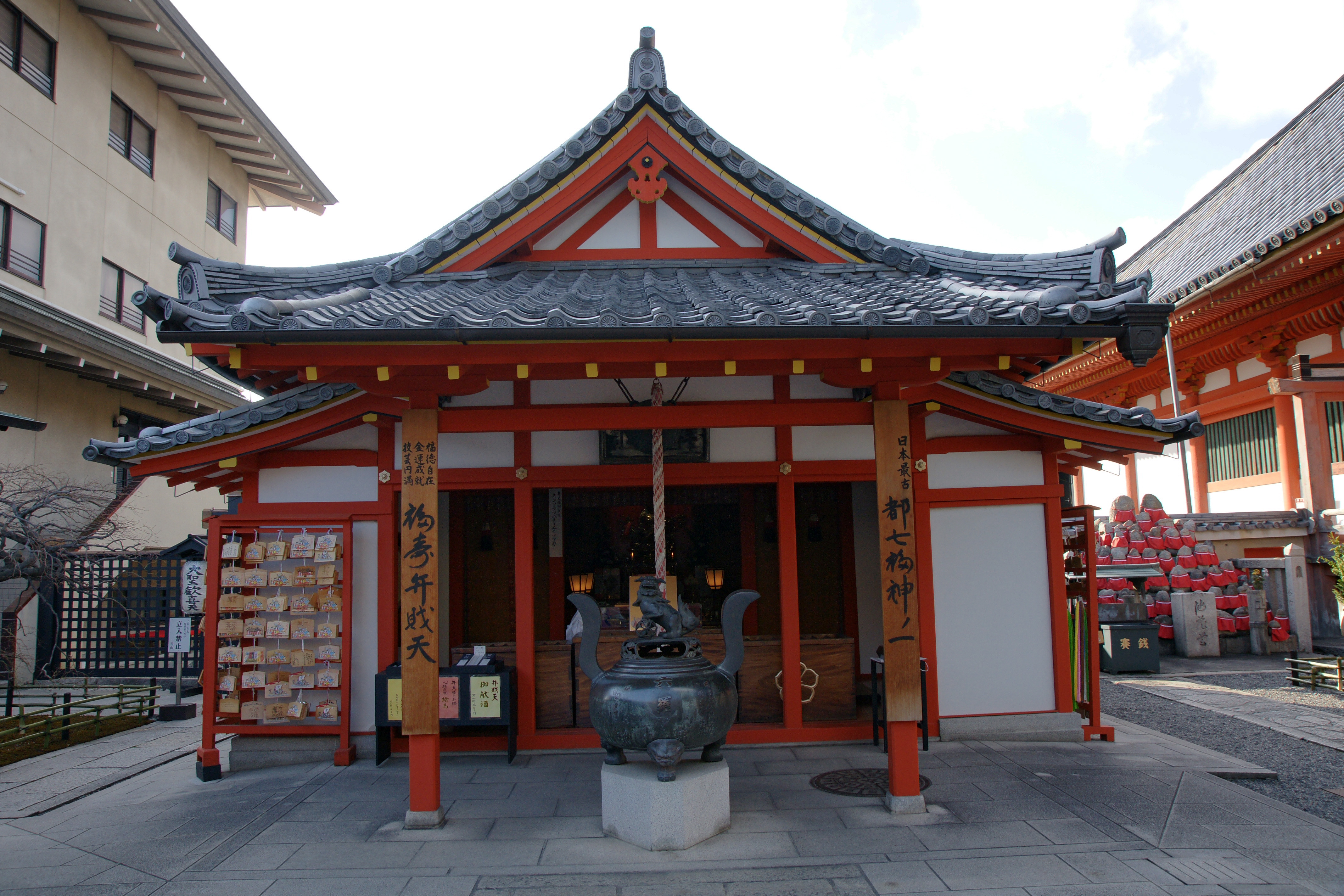 Rokuharamitsuji, a buddhist temple in Kyoto, Kyoto prefecture, Japan